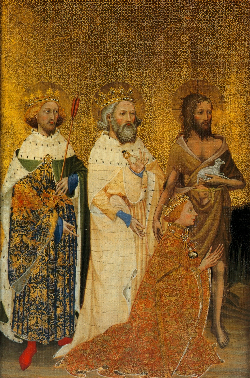 Wilton diptych. Left wing. London NG.